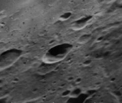 Oblique view of Hendrix, on the moon.